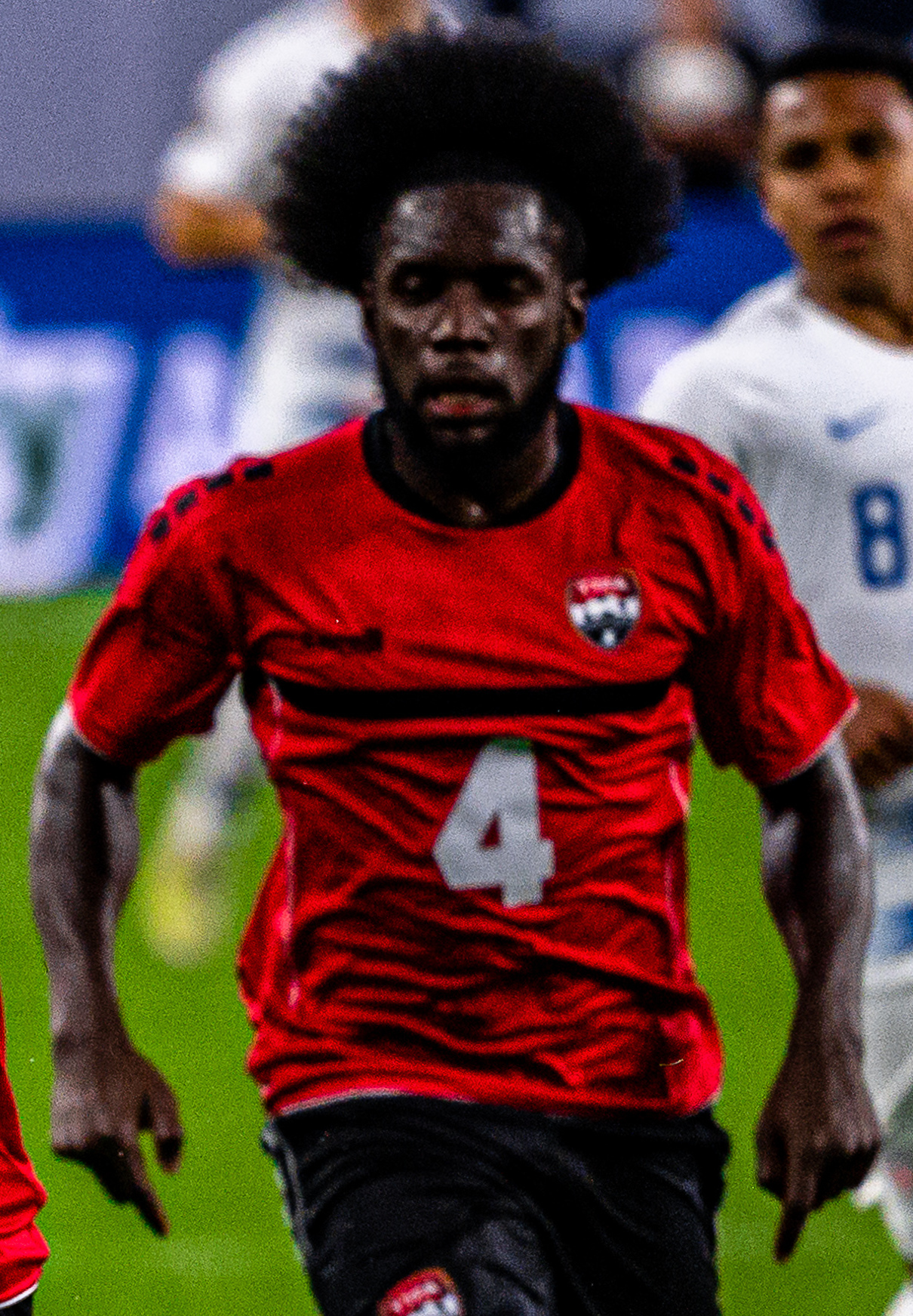 USMNT vs. Trinidad and Tobago